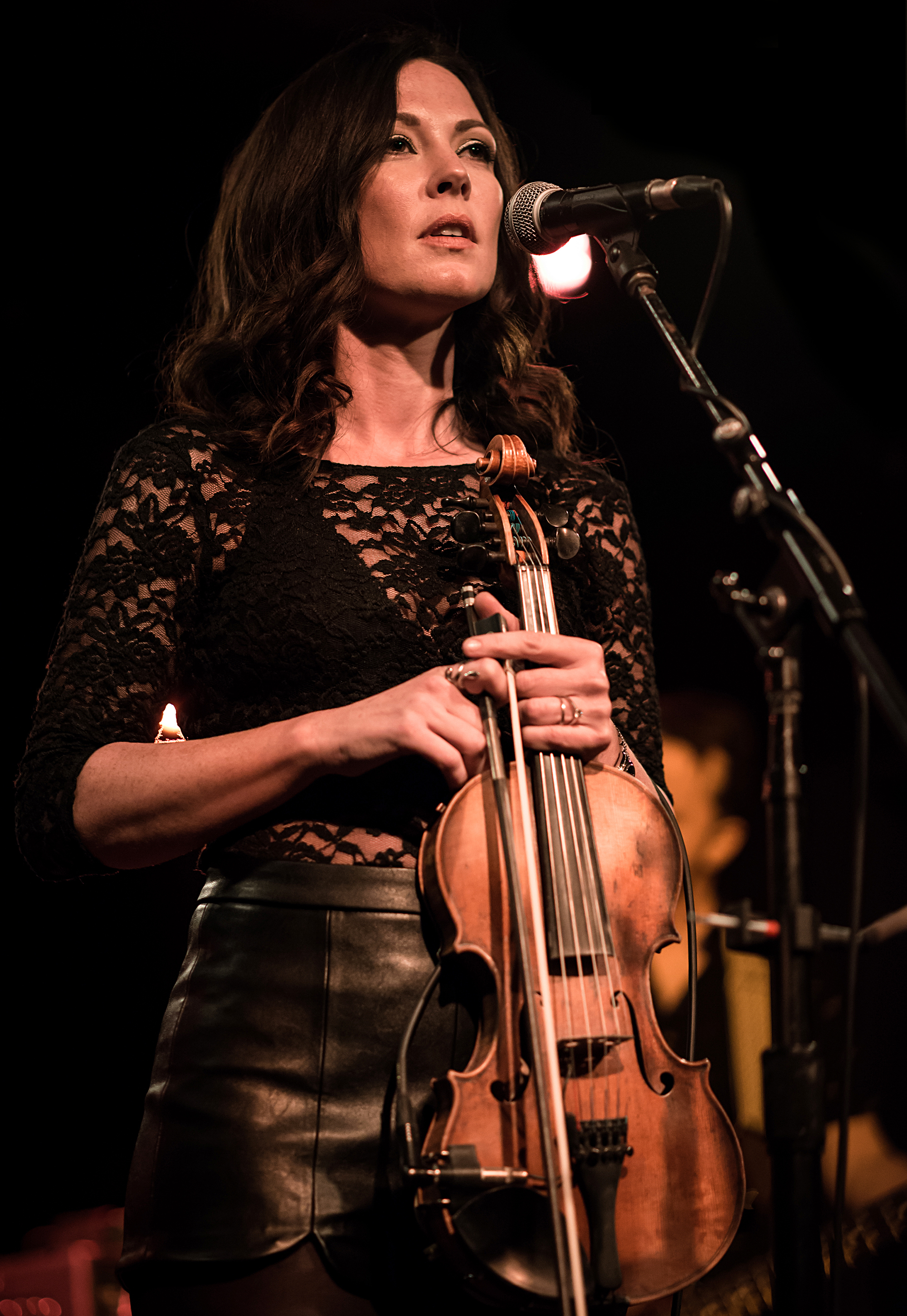 Amanda Shires at The Echo